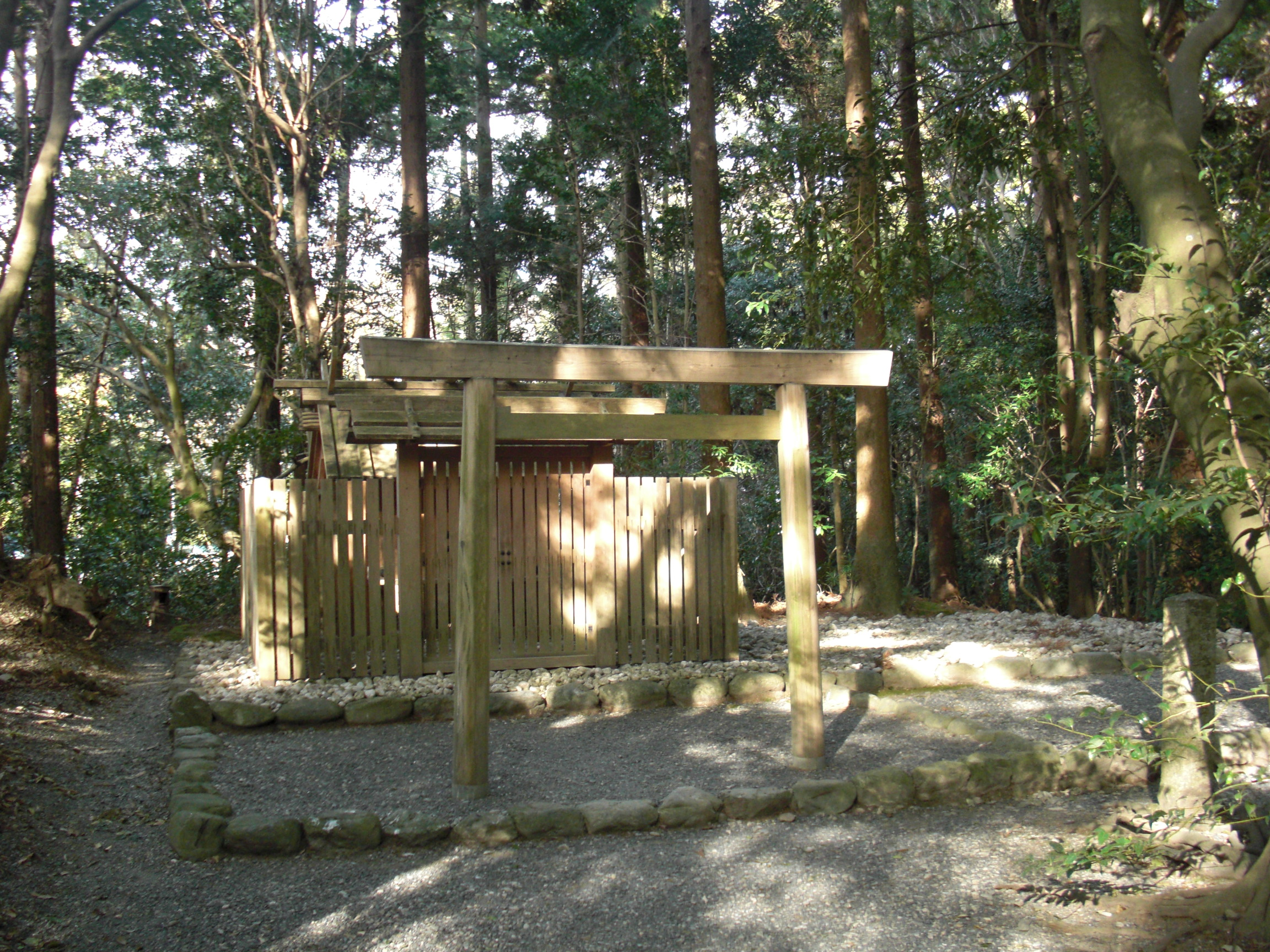 This is a shrine in Ise Grand Shrine Toyouke Shrine.